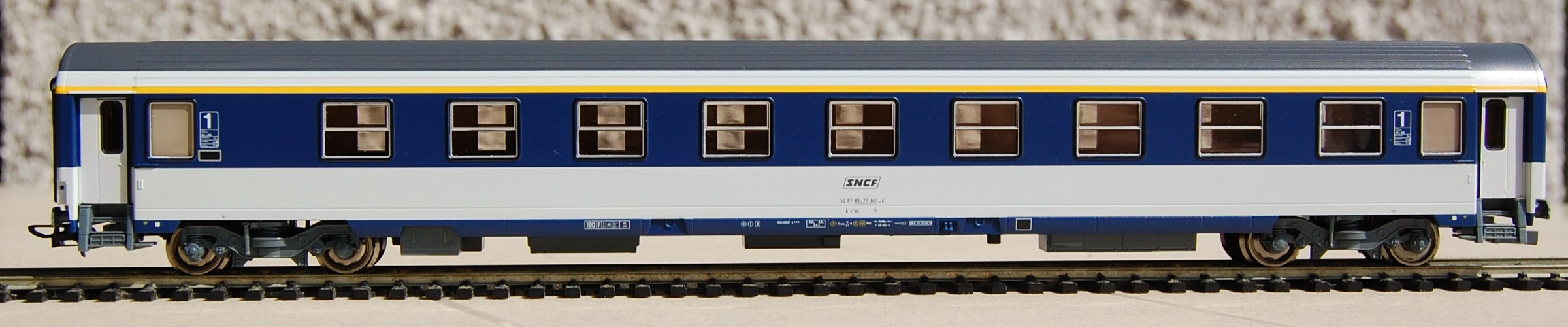 Couchette car Corail Vu A9c9ux, SNCF, France. HO scale model by Roco. Modèle réduit Roco d'une voiture-couchettes Corail Vu A9c9ux, SNCF, France.